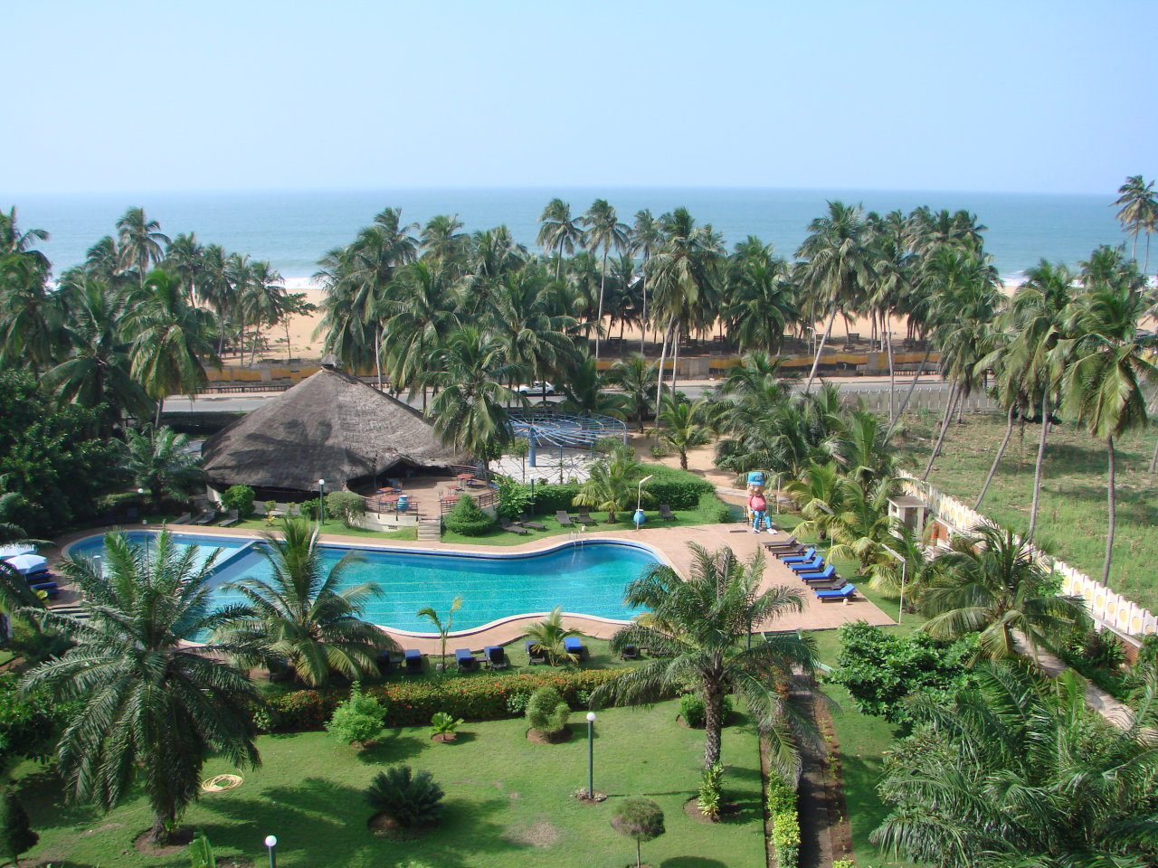 View of the Lome beach and neighbourhood from IBIS Hotel